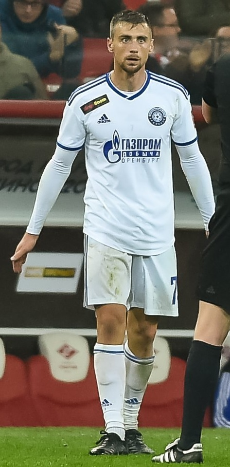 Filip Rogić with FC Orenburg in a game against FC Spartak Moscow.